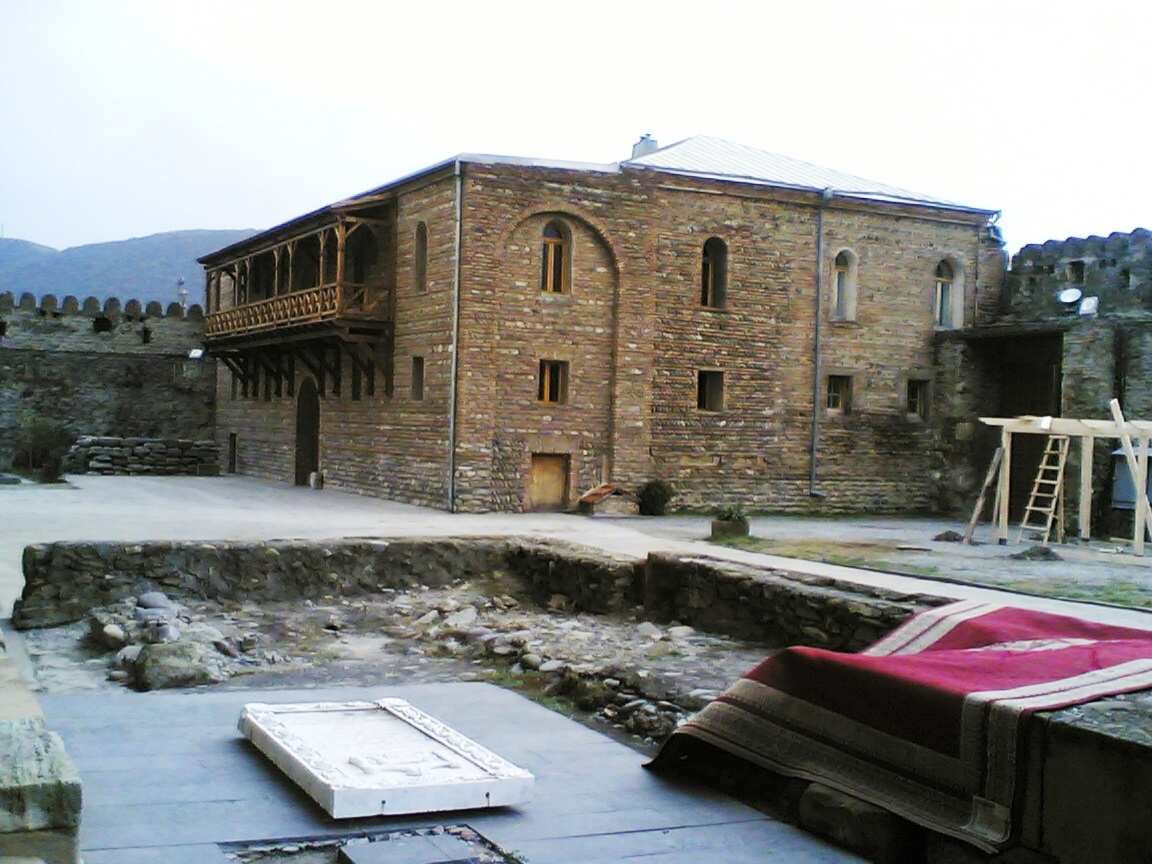 Svetitskhoveli- Palace of Catholicos Anton